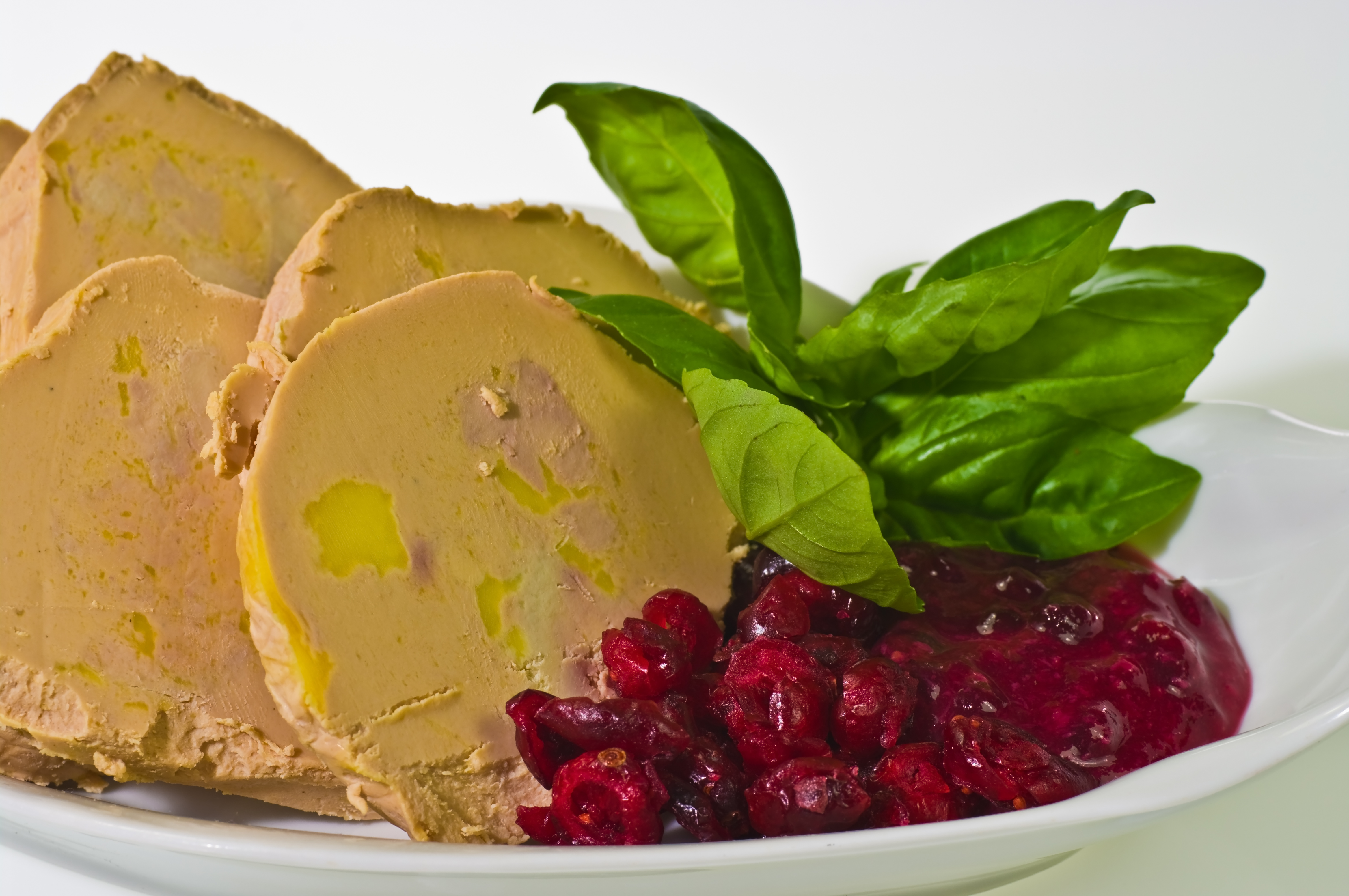 Foie gras - food product made of the liver of a duck or goose that has been specially fattened.